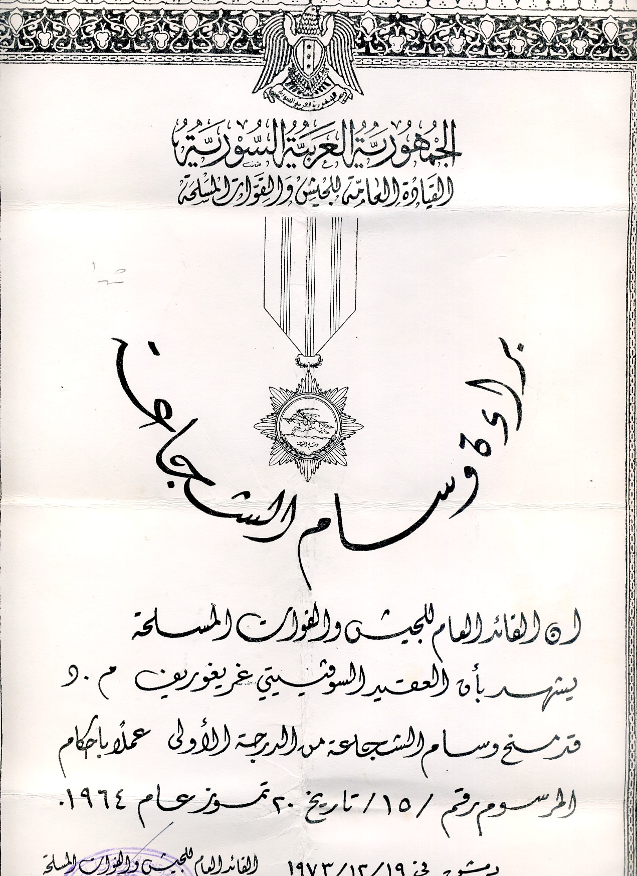 Hero of Syria citation, issued to a Soviet militaryman, who fought Isaelis, Americans, and joint NATO force (of British, French, and Italian military components) in the Middle East, and thus, has been considered to be an eligible candidate, to receive the supreme Syrian award.